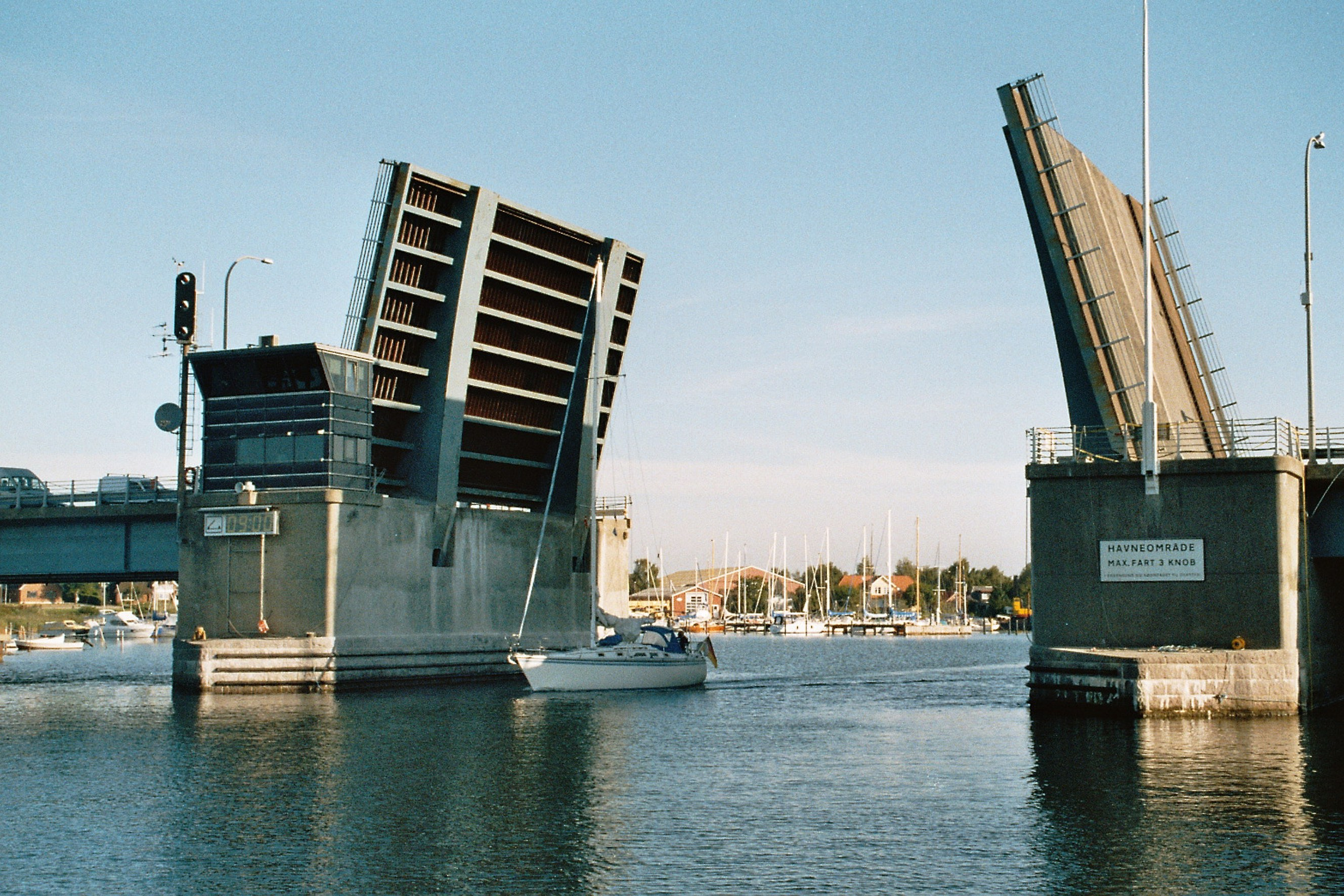 The bascule bridge across the Egernsund